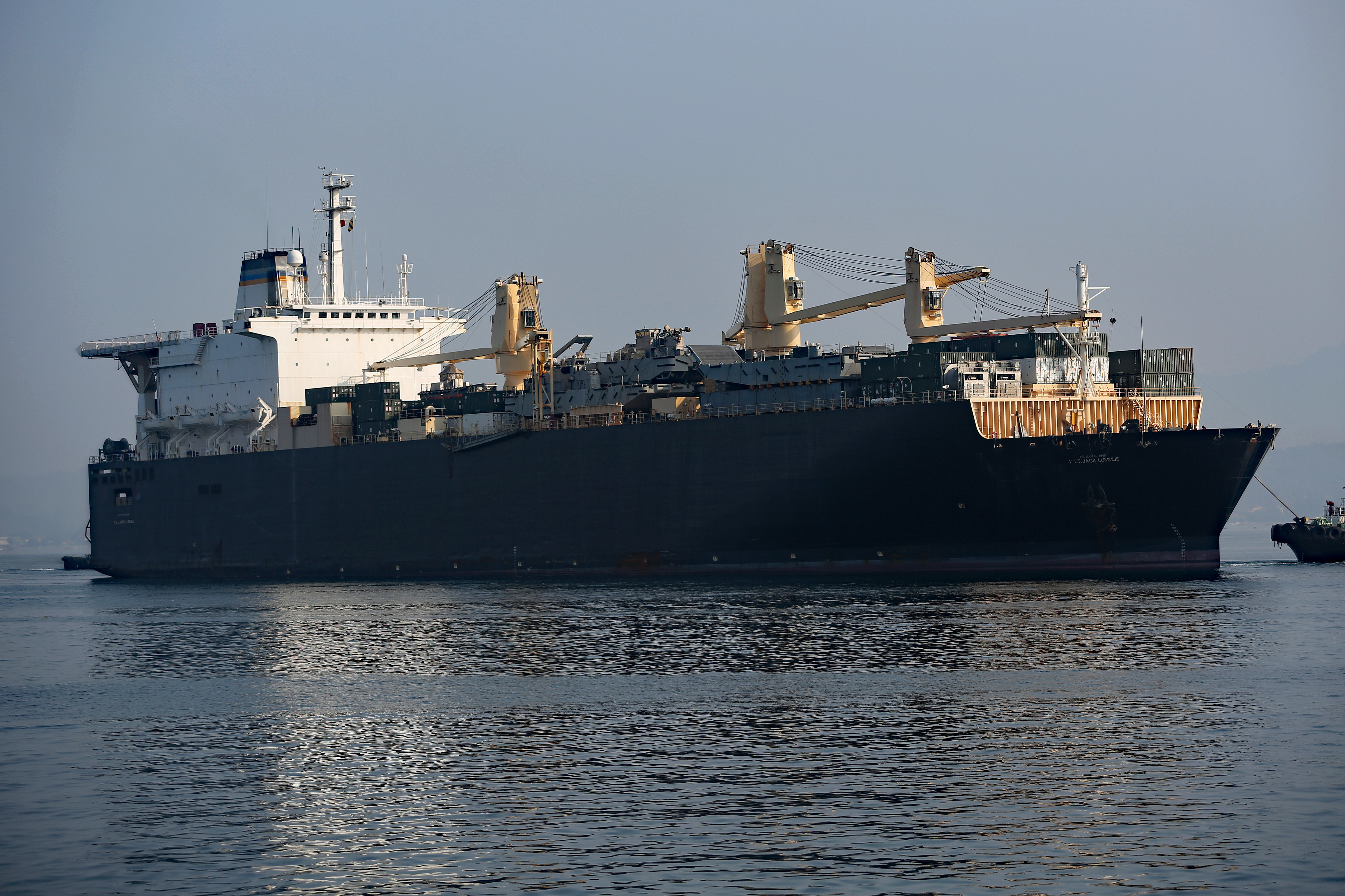 The U.S. Military Sealift Command's maritime prepositioning force ship USNS 1st Lt. Jack Lummus (T-AK-3011) arrives at Subic Bay in preparation for exercise "Balikatan 16". The exercise, in its 32nd iteration, was scheduled to take place on the Philippine islands of Luzon, Palawan, and Panay and is an annual bilateral exercise that involves U.S. military and Armed Forces of the Philippines personnel and subject matter experts from Philippine Civil Defense agencies.